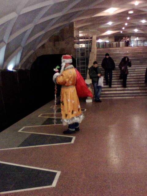 Santa Claus in Kharkiv Metro on the station Soveitskoy Armii.